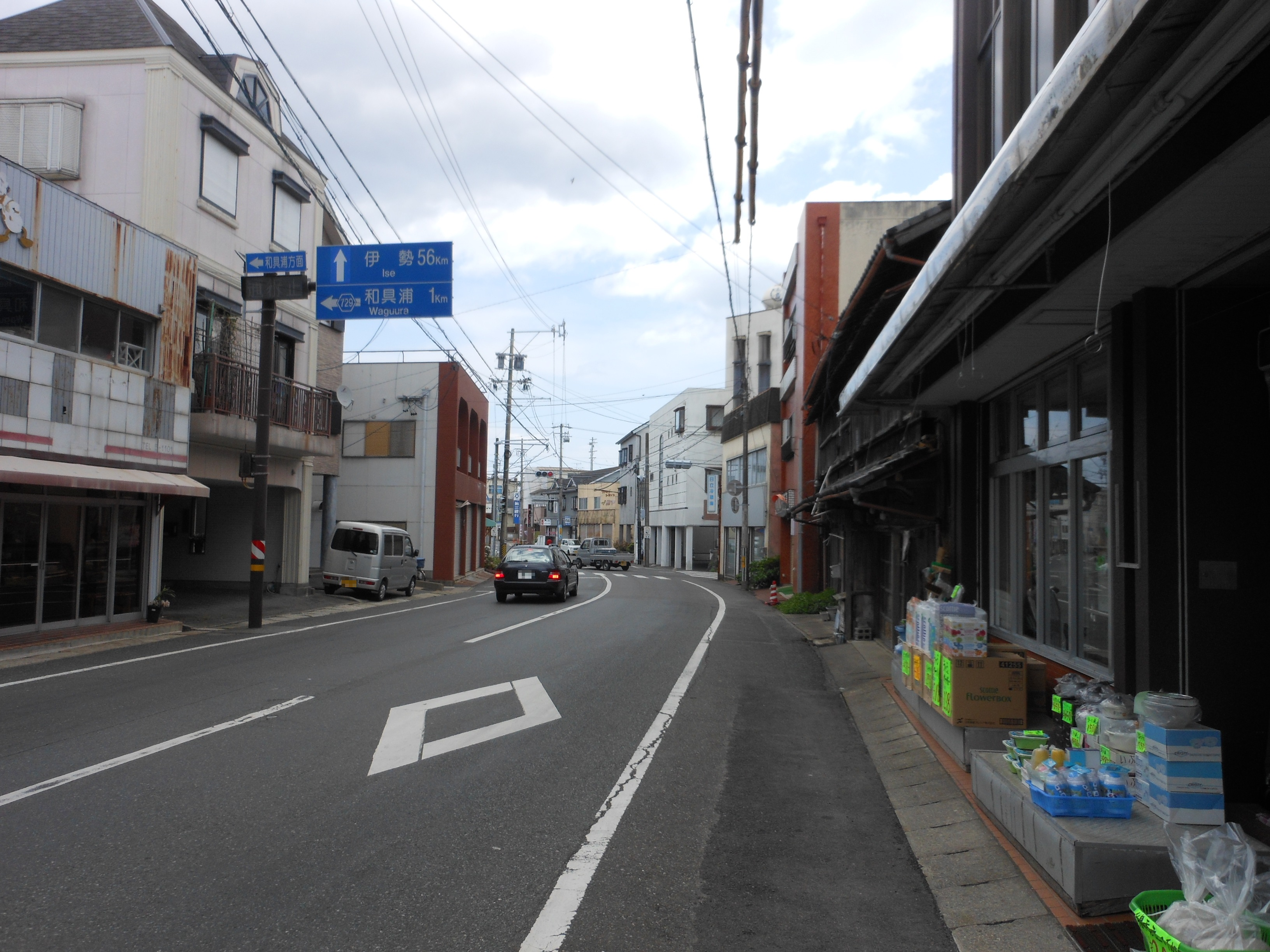 This is a landscape photo of Wagu,Shima Town,Shima City,Japan.